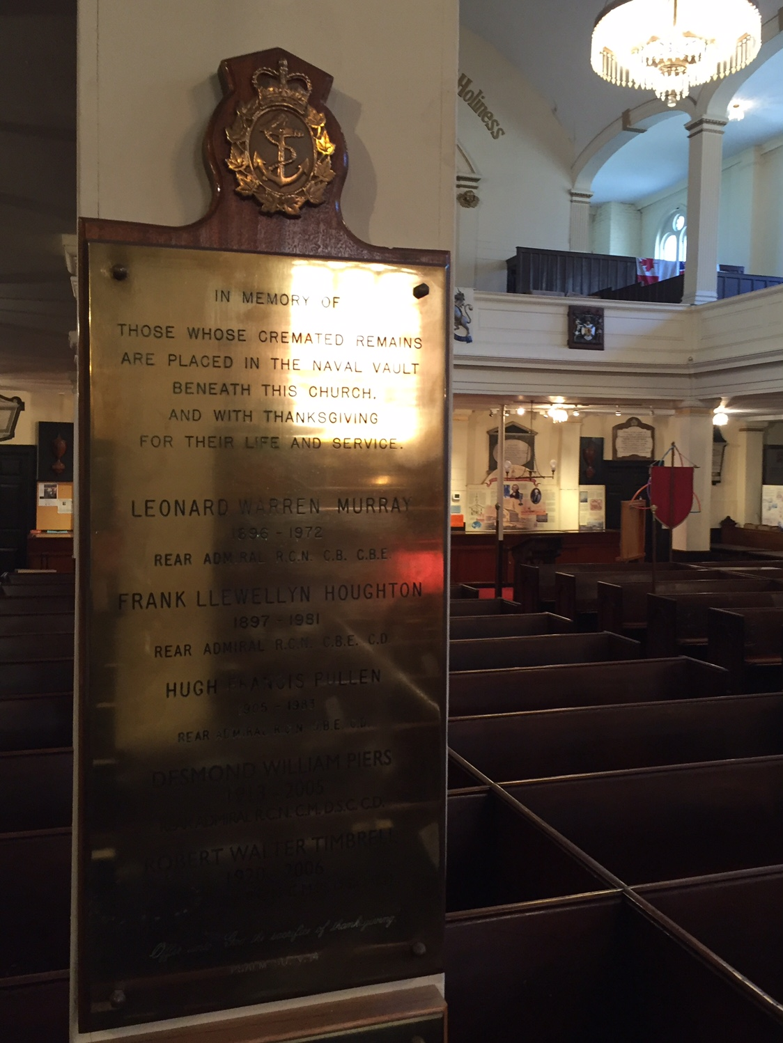 Leonard Warren Murray Plaque, St. Paul's Church, Halifax, Nova Scotia